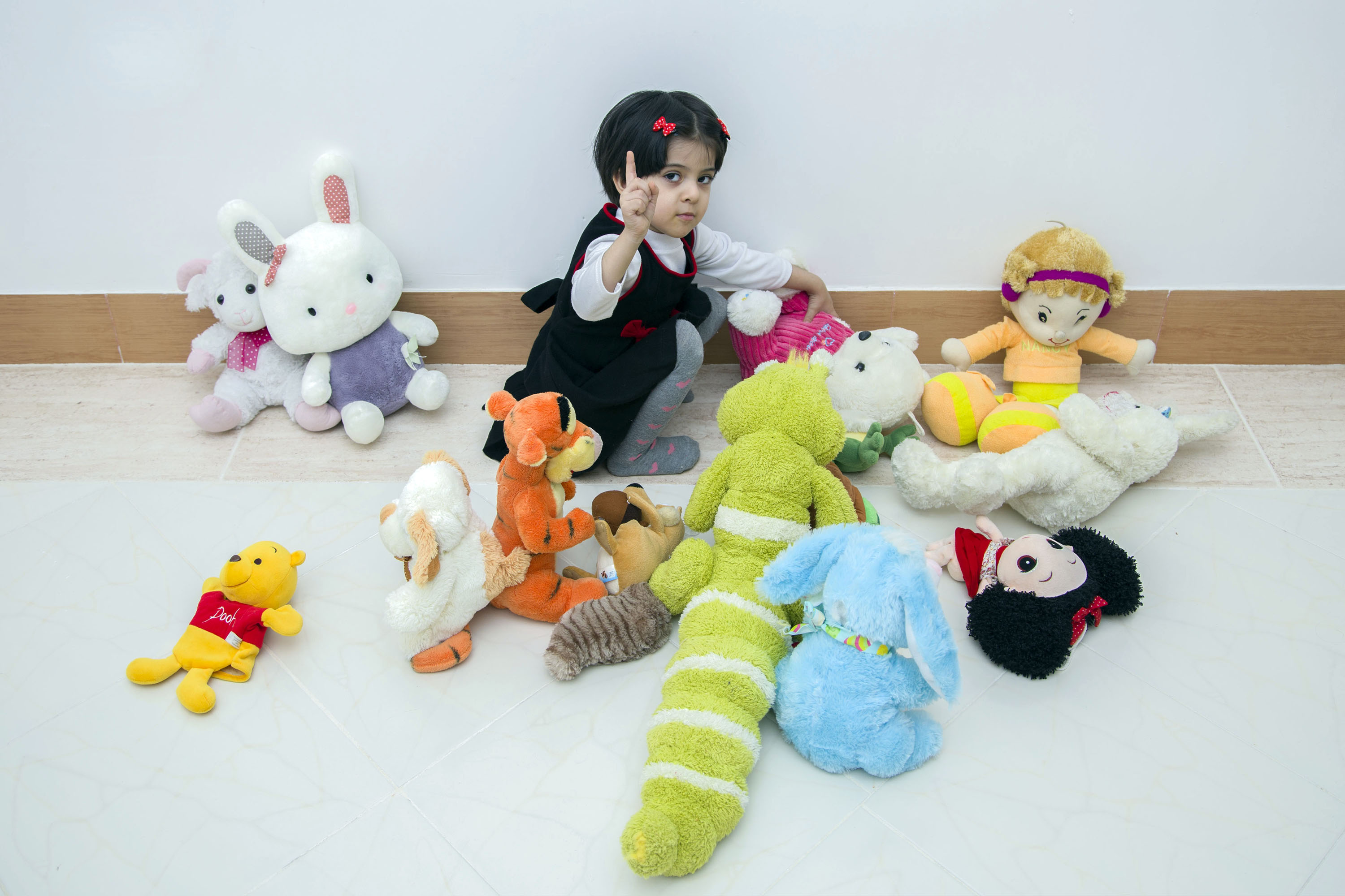 Emotion is any conscious experience characterized by intense mental activity and a certain degree of pleasure or displeasure.